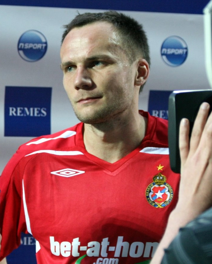 Arkadiusz Głowacki